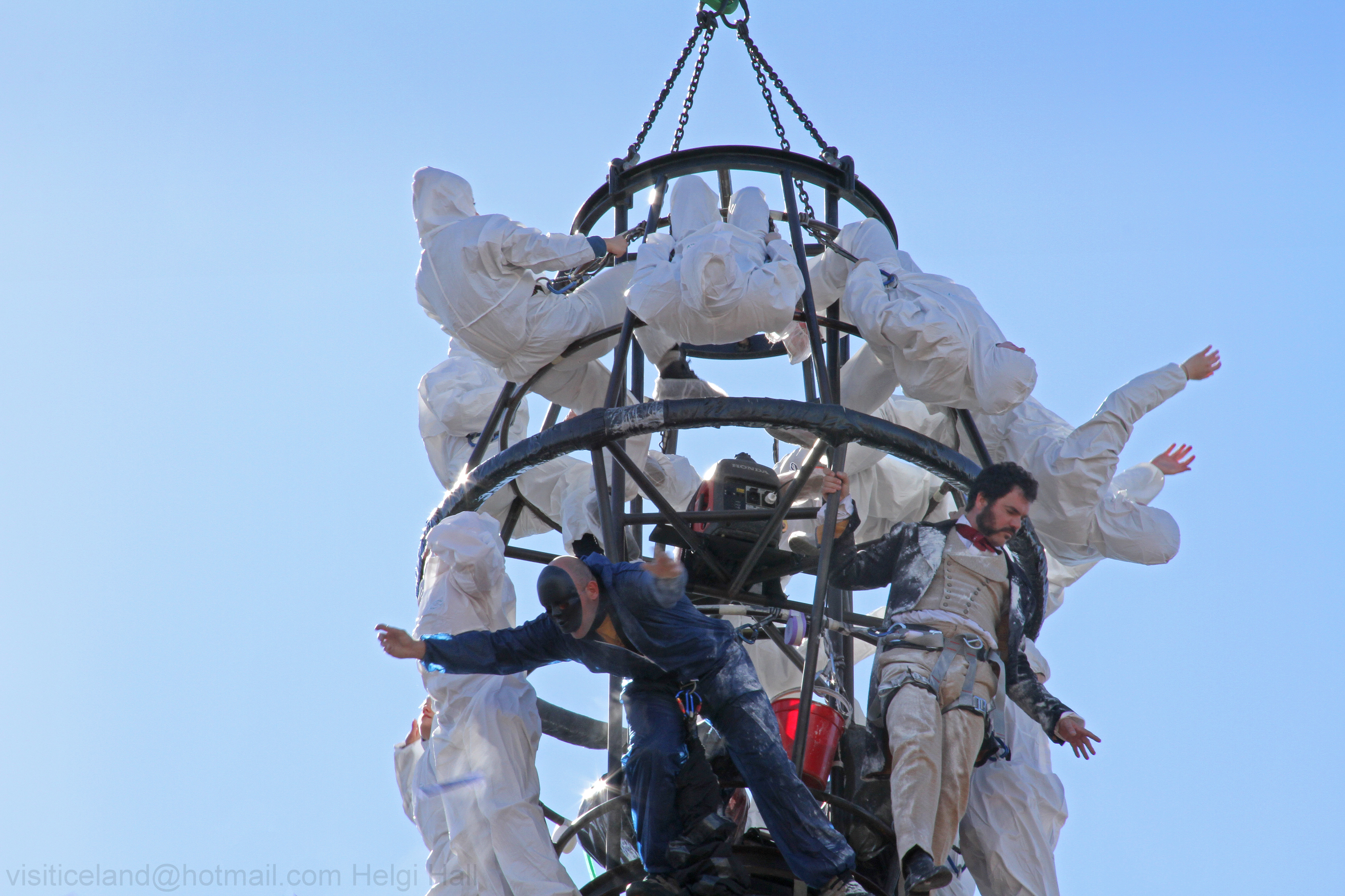 The particular concept of shows designed by La Fura dels Baus is shown in its large scale performances such as "L’home del mil.leni", to celebrate the new millennium 2000, which drew an audience of more than 20.000 in Barcelona and the Divine Comedy performed in Florence in front more than 35.000 spectators, La Navaja en el Ojo that opened the Biennial of Valencia, which attracted an audience of more than 20,000 or Naumaquia 1- Tetralogía Anfíbia- El Juego Eterno, which drew an audience of more than 15.000 spectators at Forum de las Culturas of Barcelona. A number of courses and workshops have trained actors in "Furan language". The company has included new technologies in its work, in Work in Progress 97 for example, an on-line show that put on simultaneous performances in different cities in a digital theatre environment.